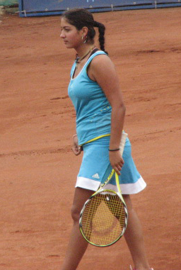 Jaklin Alawi (Allianz Cup 2008)